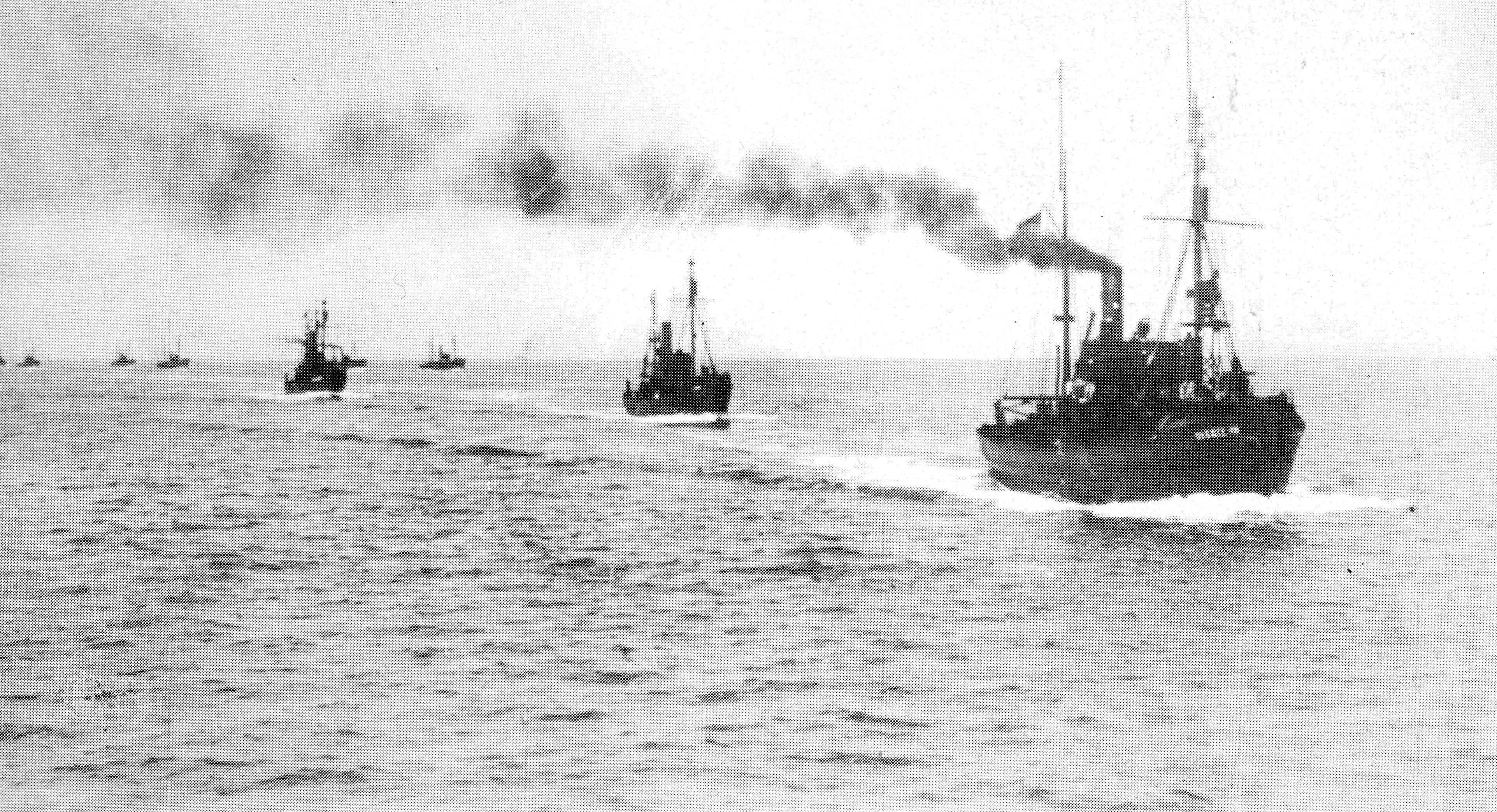 German Vorpostenboot (outpost boat) SEESTERN round about 1917.